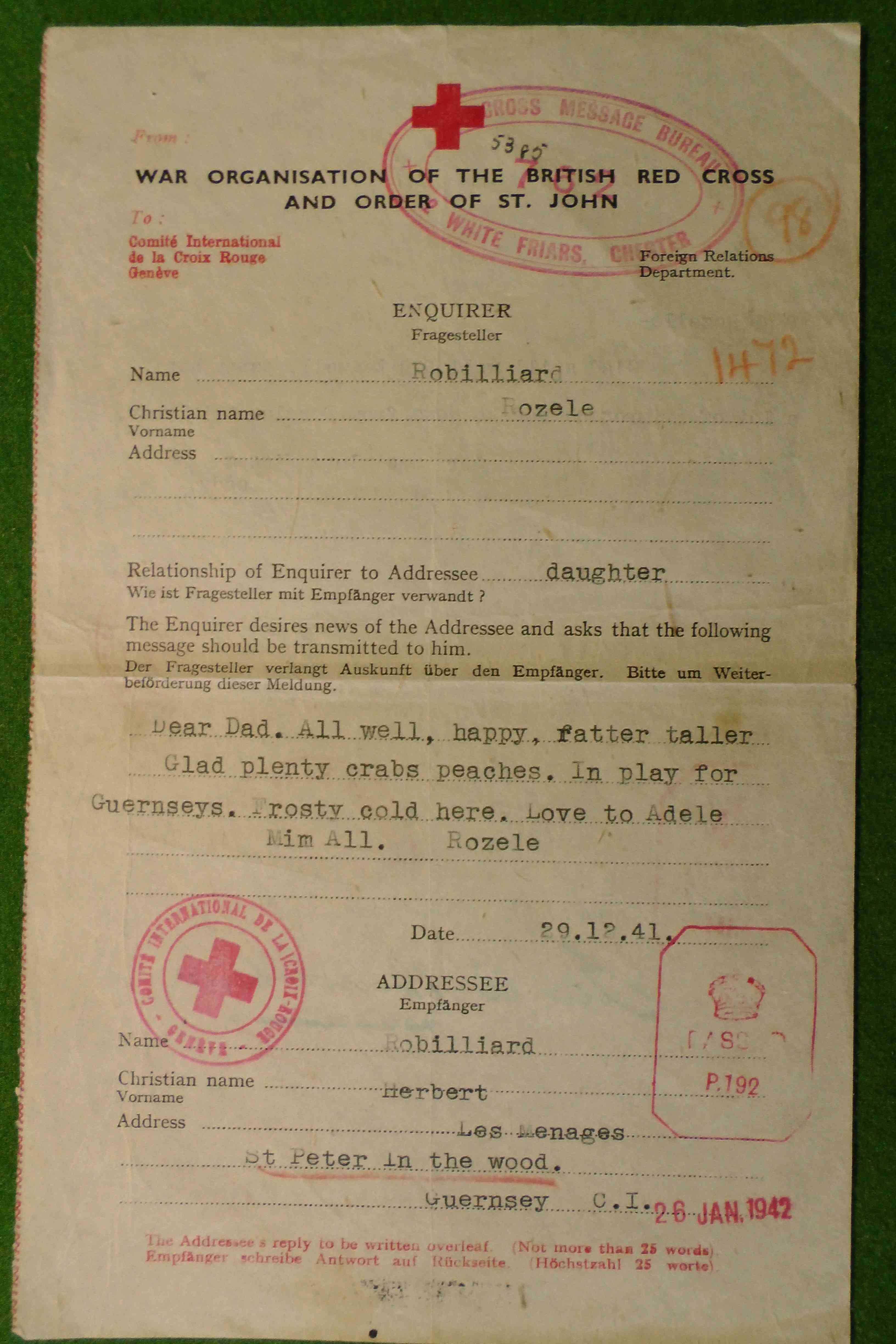 Red Cross letter sent from Guernsey to England in December 1941